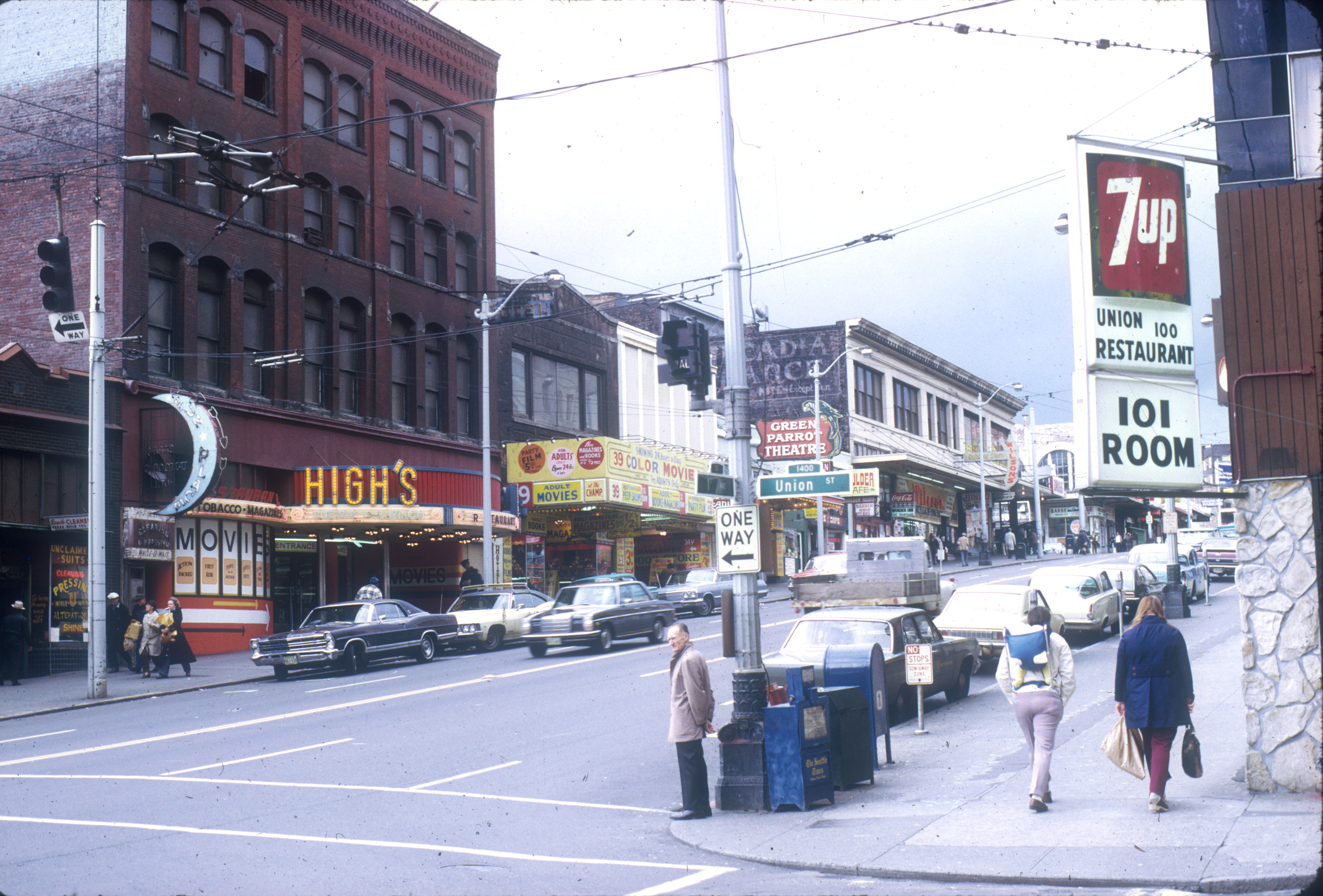 Looking north at the west side of First Avenue from the corner of Union Street, 1972. This view has changed dramatically since then, as numerous buildings here have been replaced by the South Arcade of Pike Place Market. This was a bit of a "porn row" at the time: High's News, the Green Parrot Theatre, and Champ's bookstore. Item 35487, Pike Place Market Visual Images and Audiotapes (Record Series 1628-02), Seattle Municipal Archives.